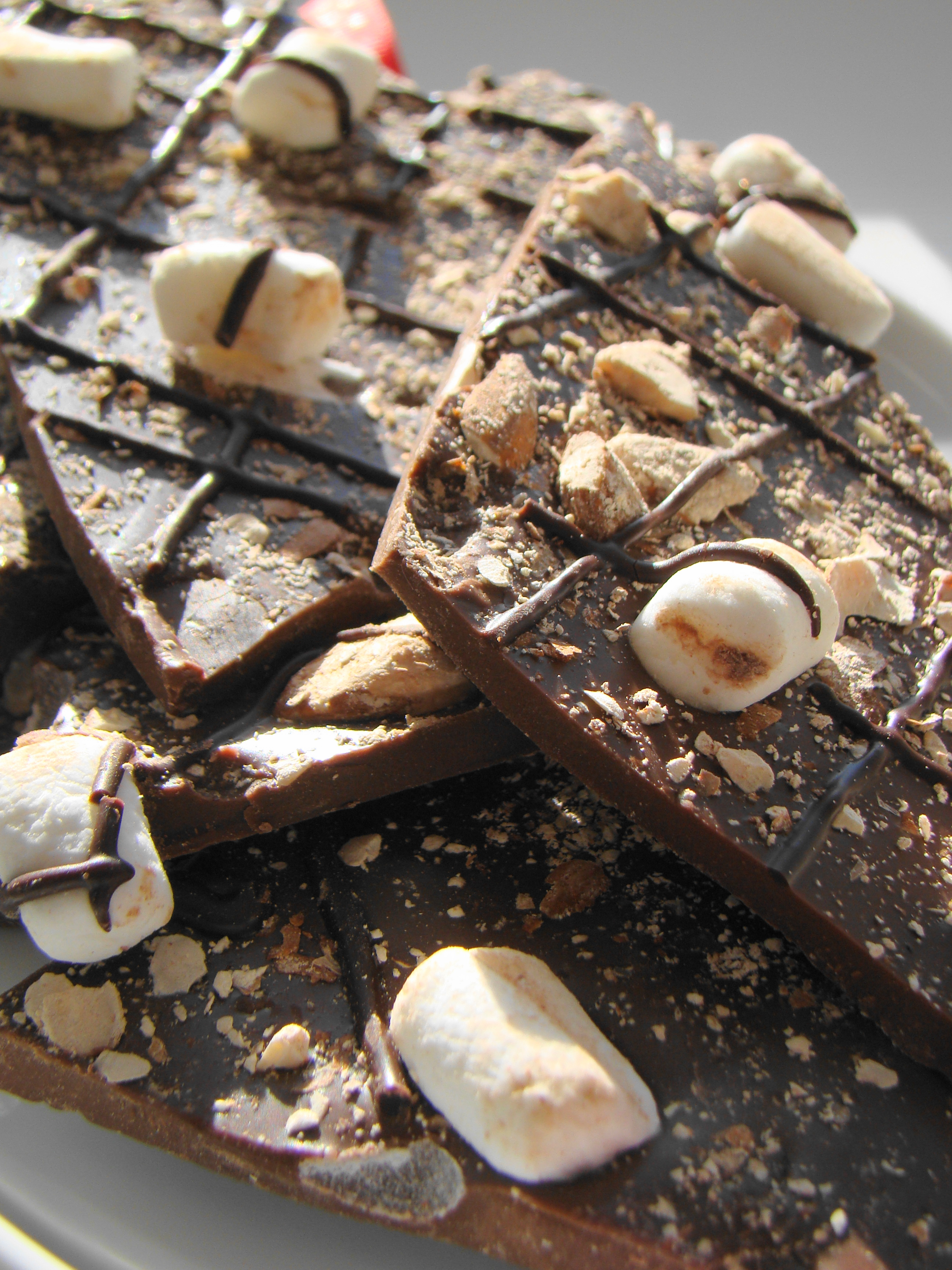 Rocky Road Bark.